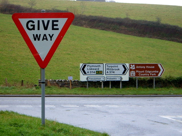 Road Junction A387 - A374 Some road signs for a change - all of which are self explanitory and refer to the A374.